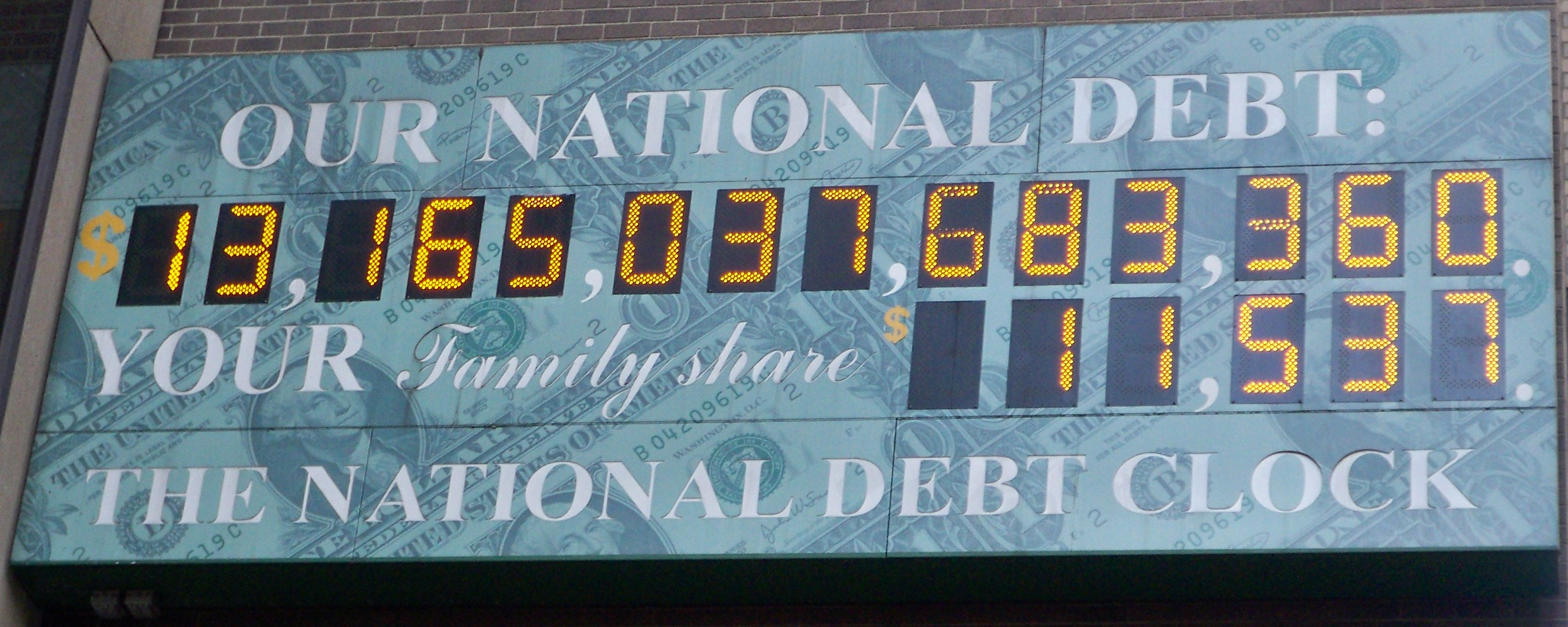 The national debt clock outside the IRS office in NYC.